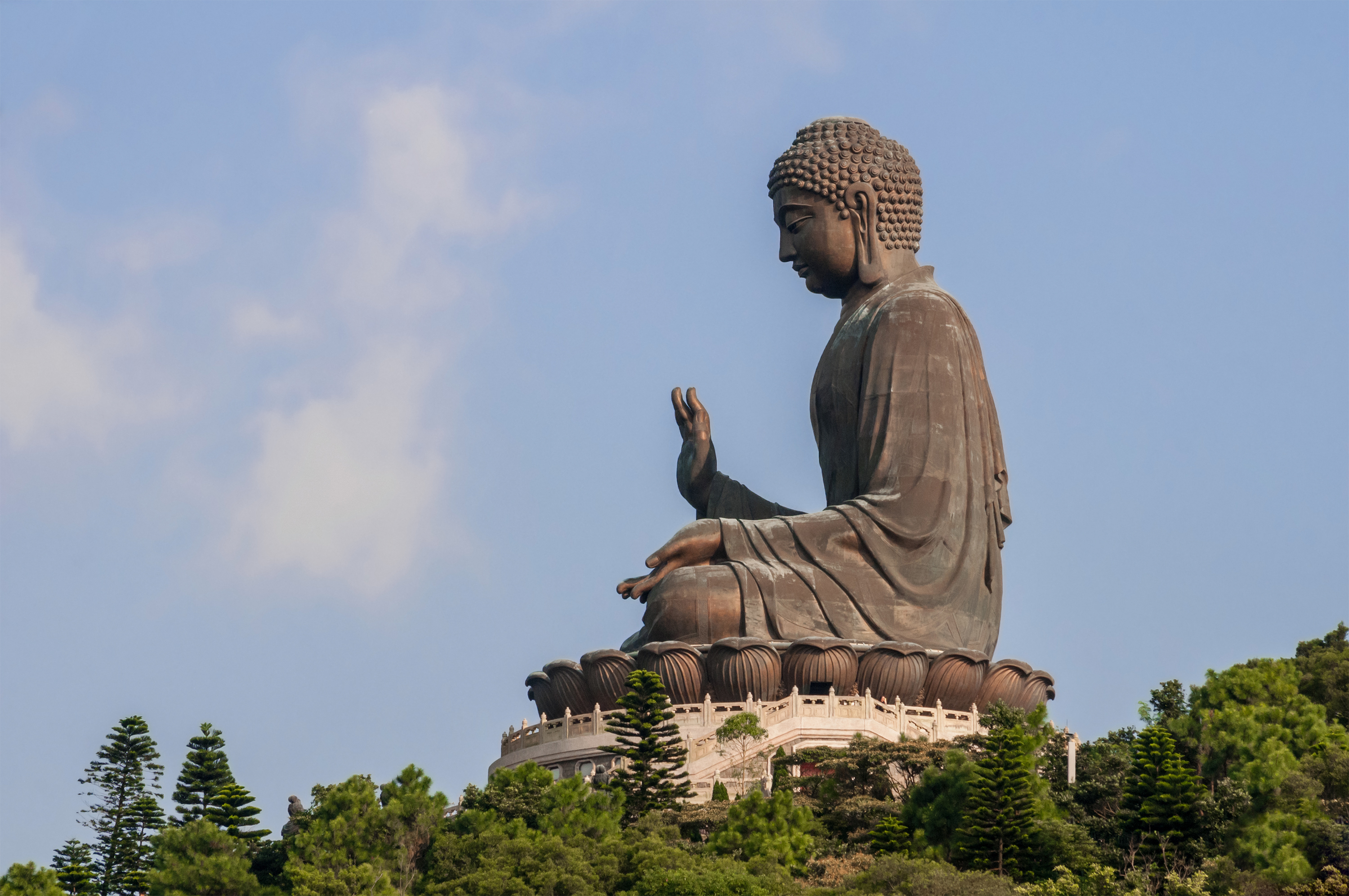 Tian Tan Buddha, also known as the Big Buddha located at Ngong Ping, Lantau Island, in Hong Kong.